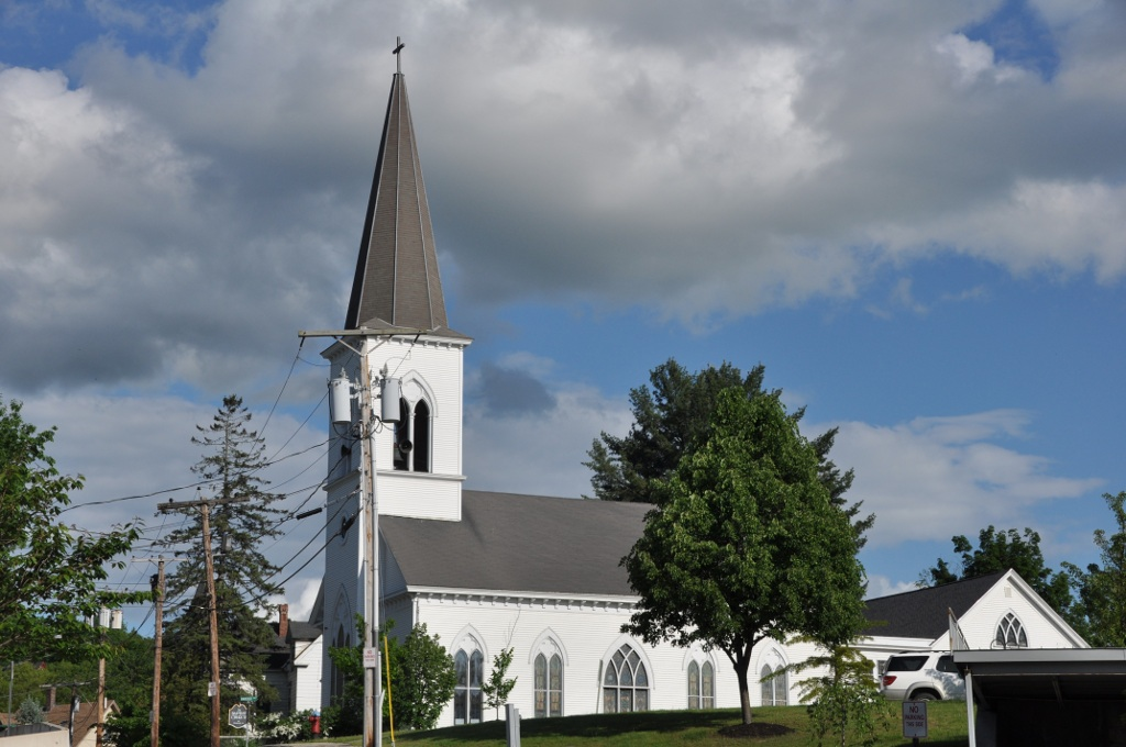 The Baptist church in Franklin, New Hampshire; located in the Franklin Falls Historic District of downtown Franklin.